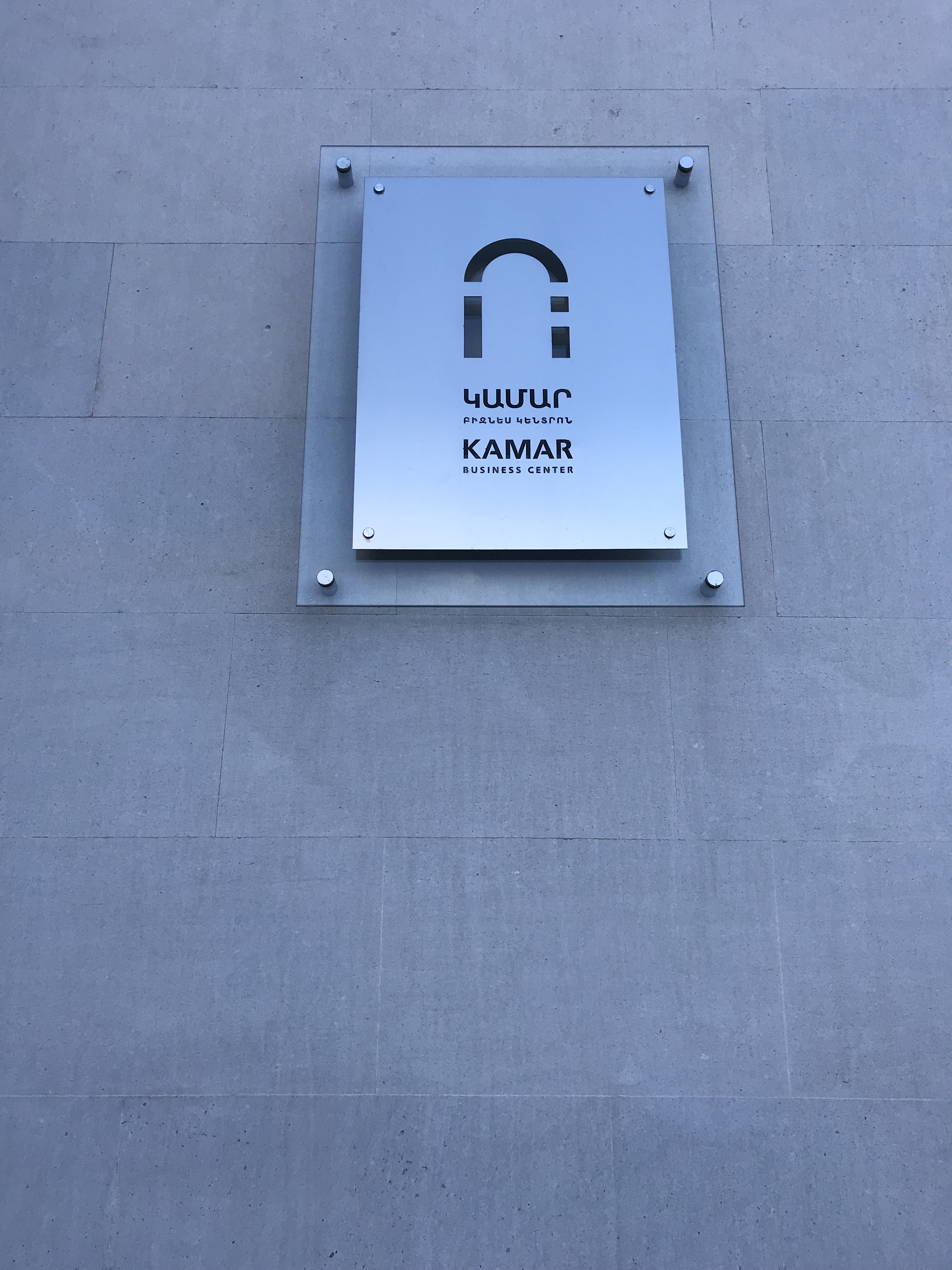 Kamar, Yerevan